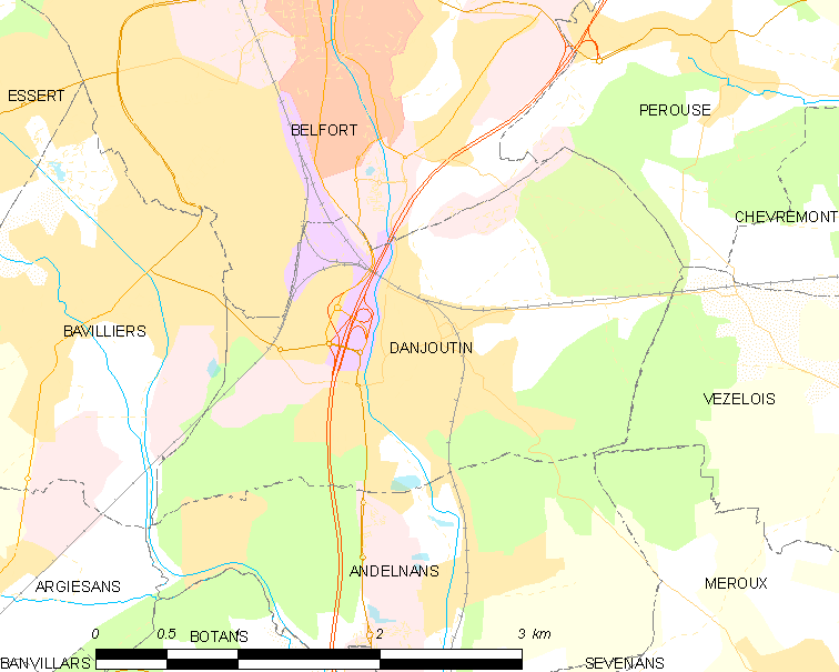 Map of French municipality Danjoutin